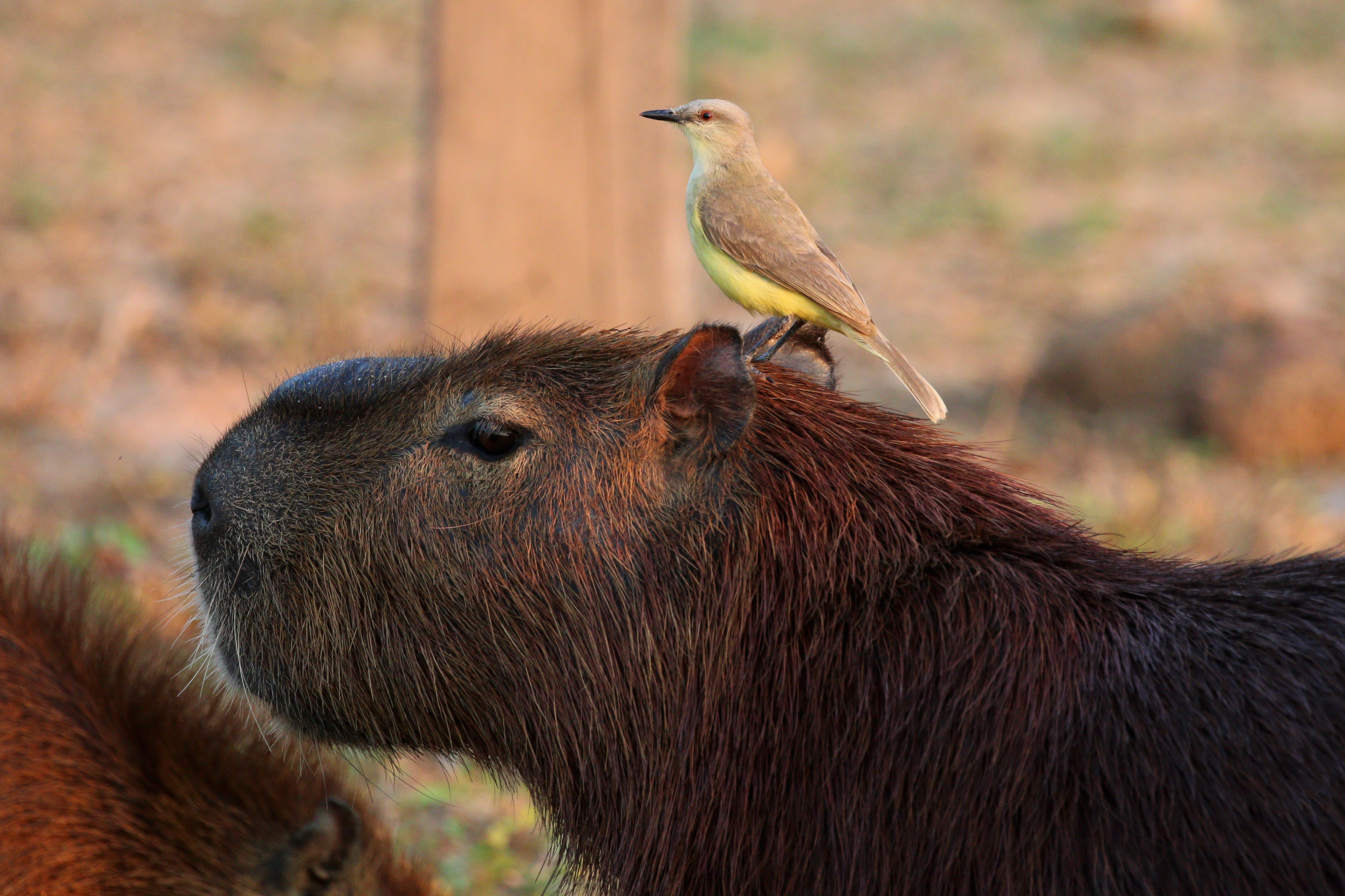 Cattle tyrant (Machetornis rixosa rixosa) on capybara, Pantanal, Brazil